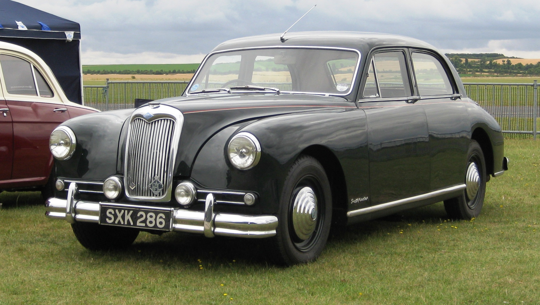 Riley Pathfinder at Duxford Classic Car show